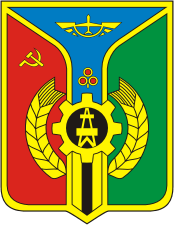 Buguruslan (Orenburg oblast), coat of arms (1982)